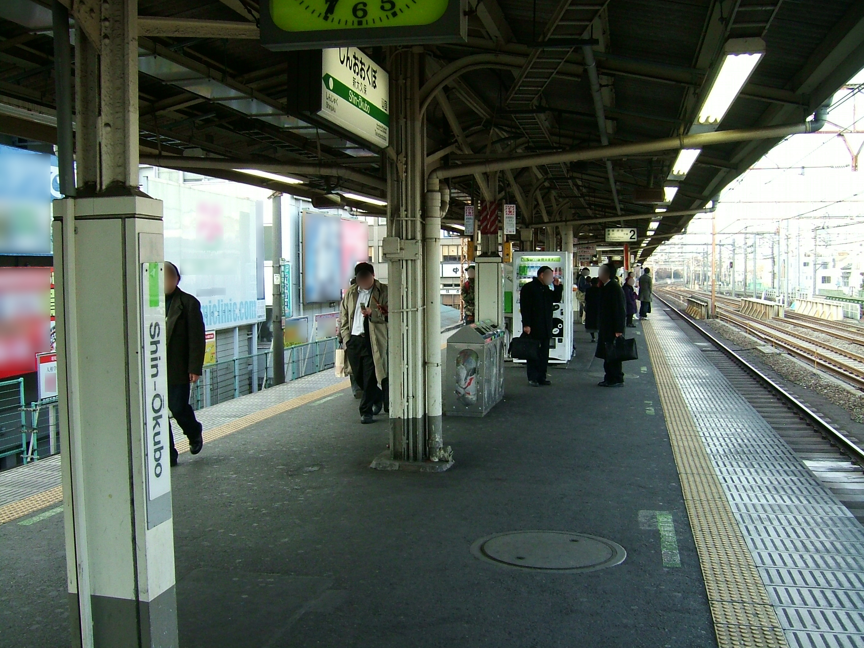 Shin-Ōkubo Station platform (Yamanote Line)